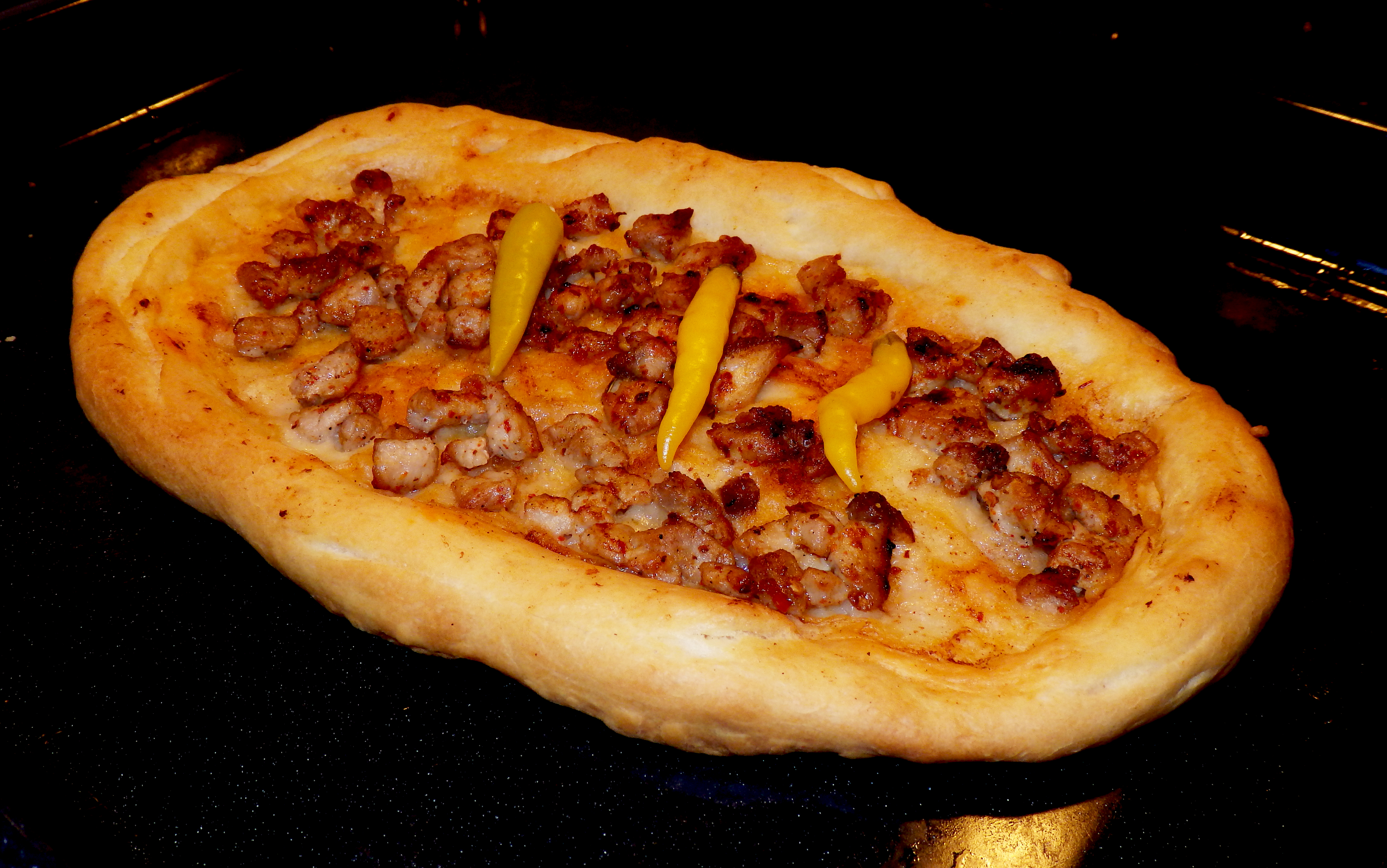 Pastrmajlija, cuisine of eastern Macedonia. Српски (ћирилица): Пастрмајлија; јело источне Македоније.